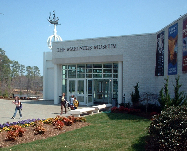 The Mariners' Museum is located in Newport News. It is one of the largest and finest maritime museums in the world.